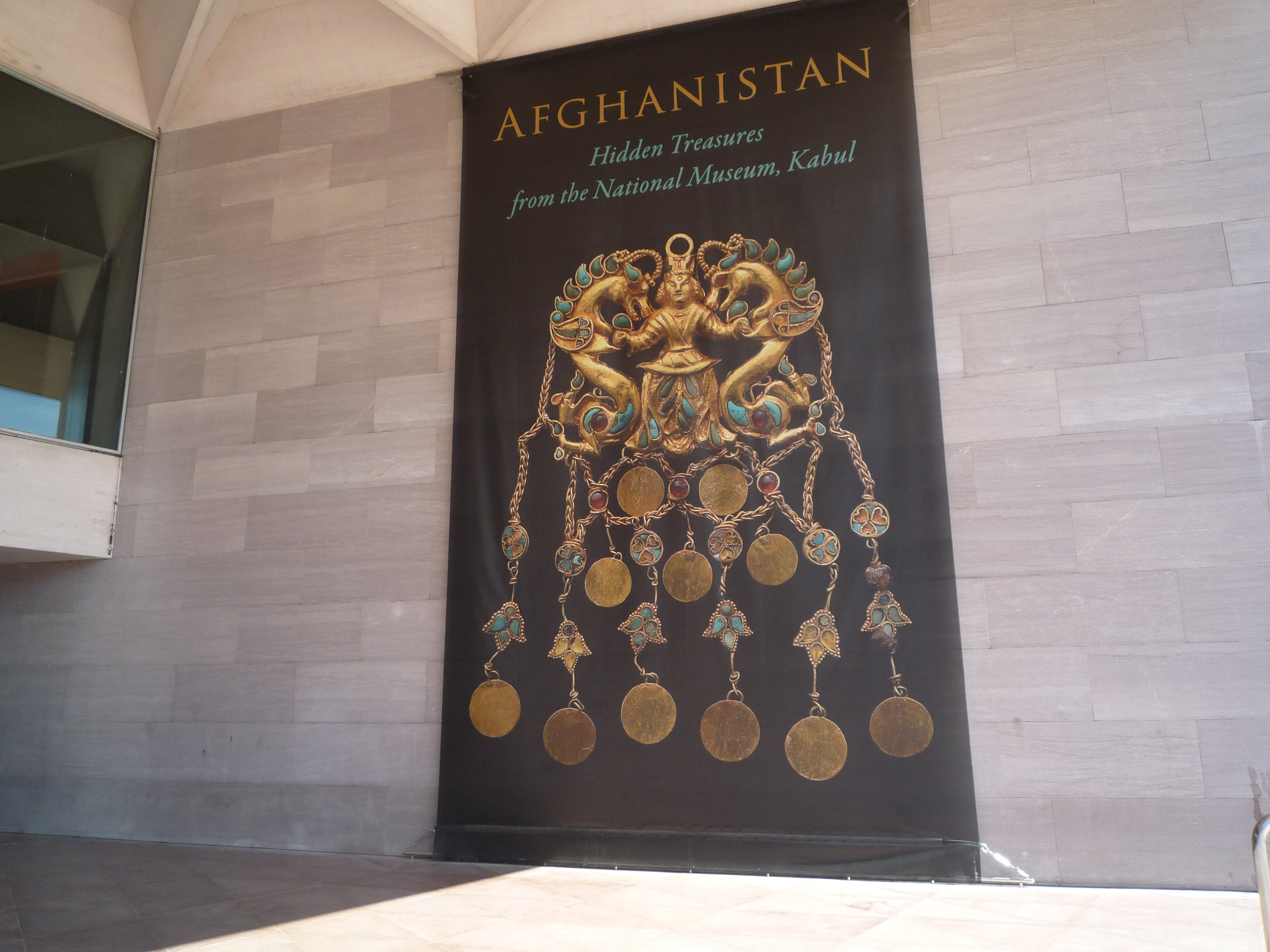 A banner on a wall for the Afghanistan: Hidden Treasures from the National Museum, Kabul exhibit.